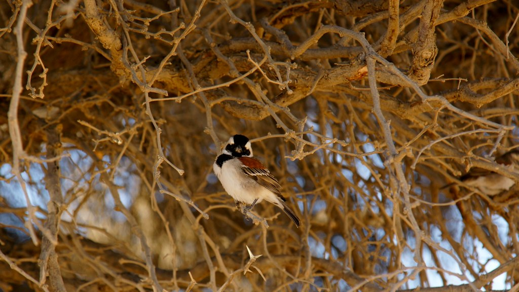 A male Cape Sparrow or Mossie of the subspecies damarensis in Namibia.